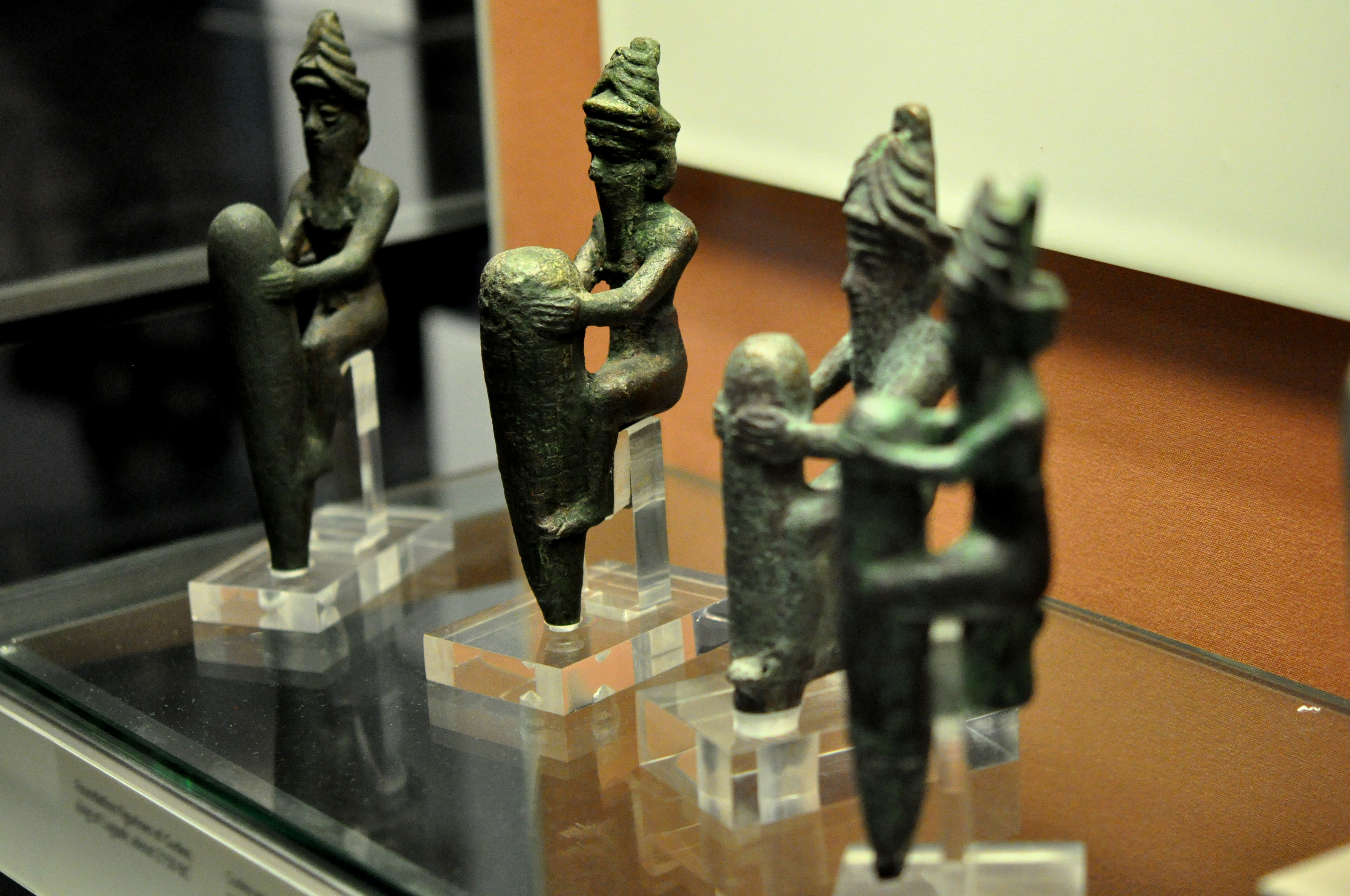 This is a photograph of four ancient copper alloy statuettes depicting four ancient Mesopotamian gods, wearing characteristic horned crowns. The statuettes date to sometime around 2130 BC. Each statuette is inscribed with the name of Gudea, the ruler of the Sumerian city-state of Lagash.